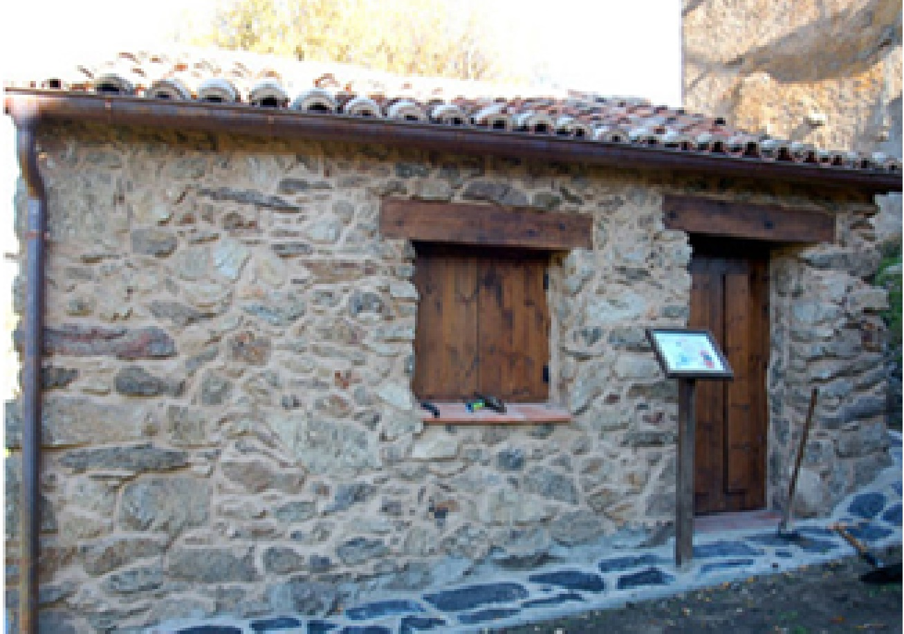 Fragua San Mames (Madrid)